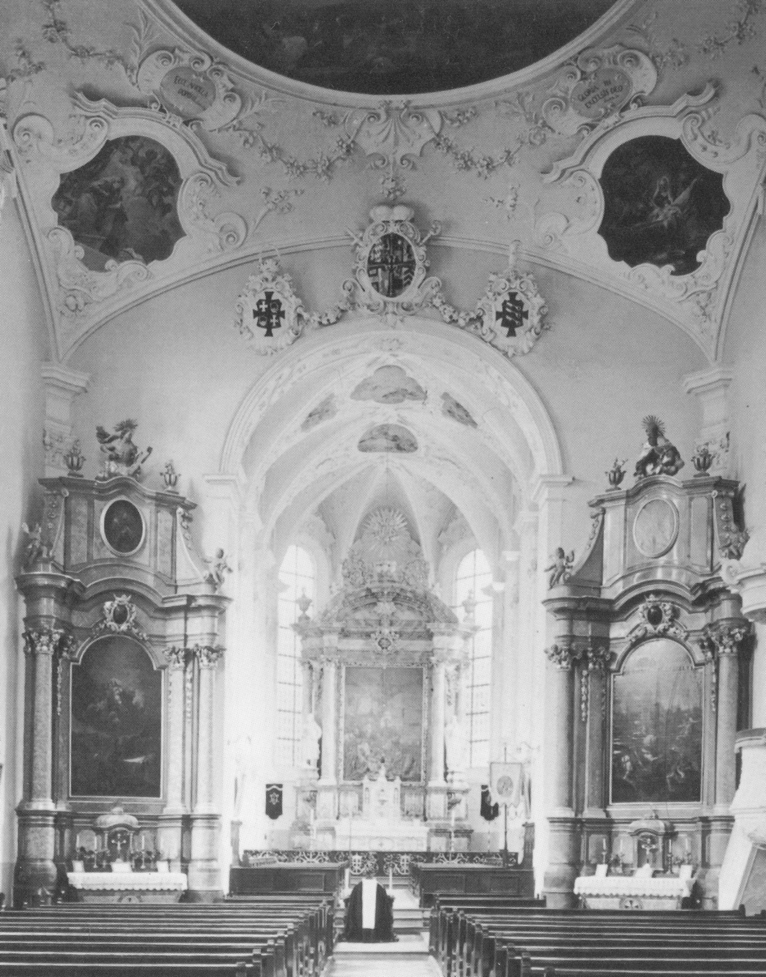 Heilbronn Deutschordenskirche innen.jpg